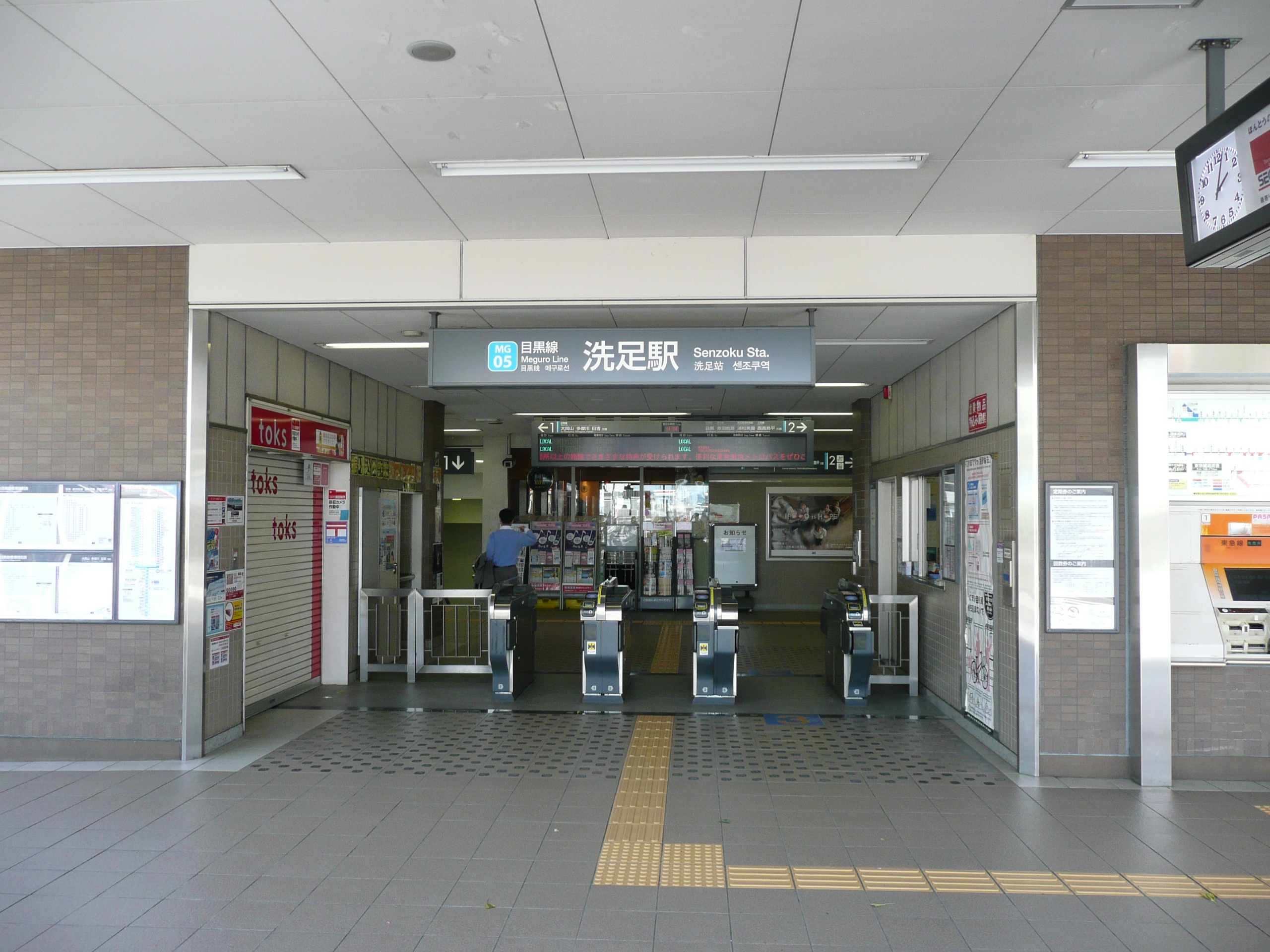 Ticket gate of Senzoku Station